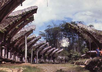 Toraja village (tana toraja). Toraja is an ethnic group in West and South Sulawesi, Indonesia